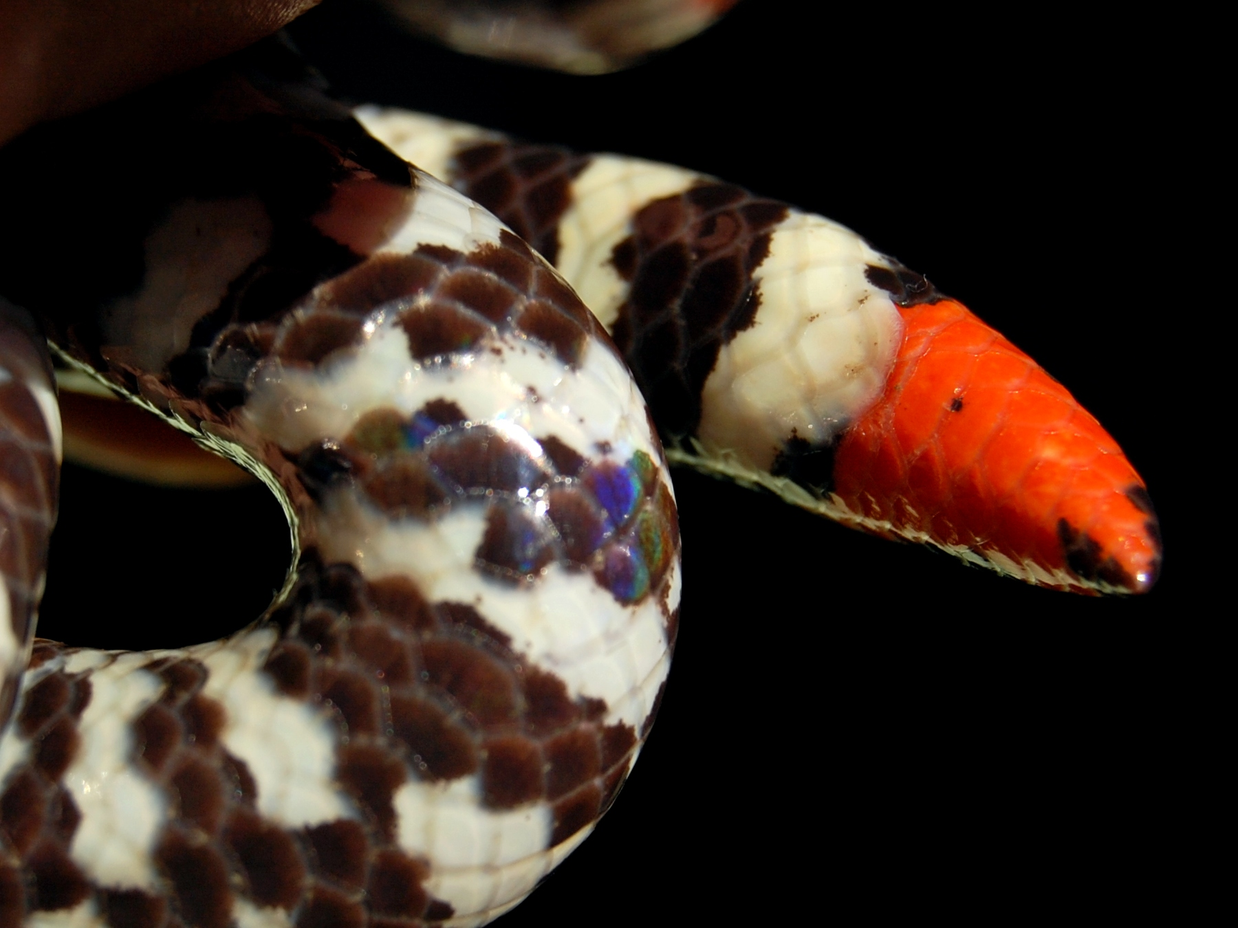 Javan pipe-snake, Cylindrophis ruffus; from Bogor, West Java, Indonesia. Ventral and subcaudal region.